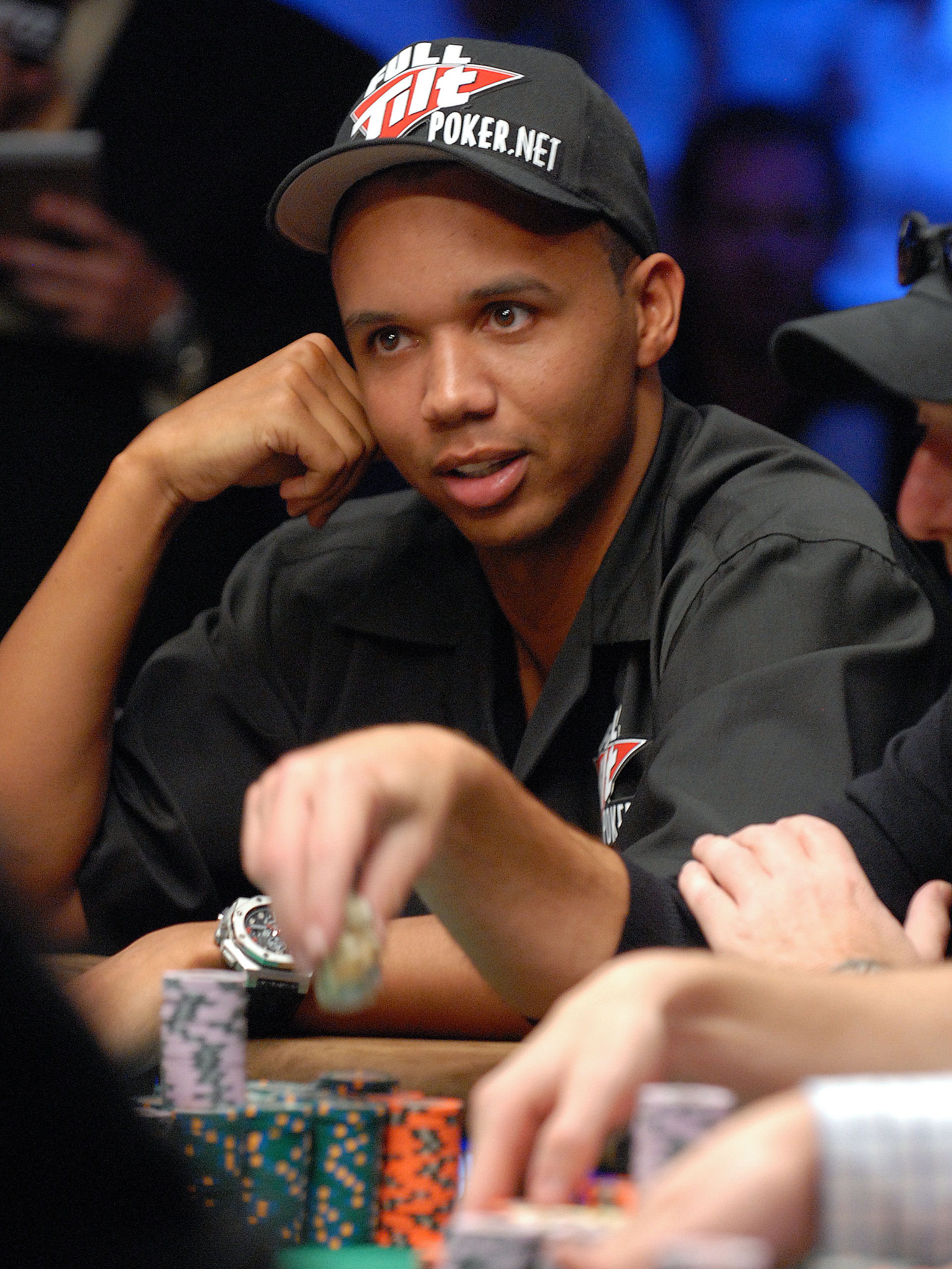 2009 WSOP Seat 3 - Phil Ivey - 9,765,000